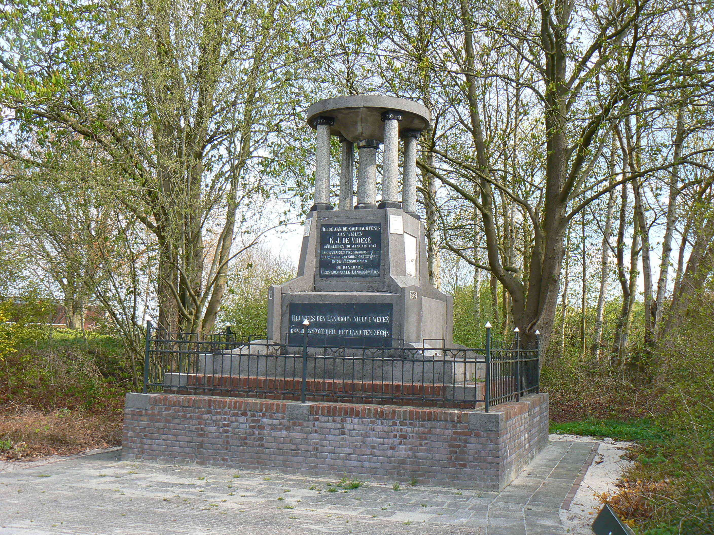 Bareveld Monument De Vrieze in Bareveld (Veendam)/The Netherlands